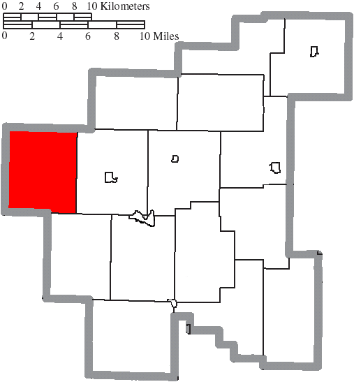 Map of the municipal and township boundaries of Noble County, Ohio, United States, as of the 2000 census, with the location of Brookfield Township highlighted. Township borders are shown only in unincorporated areas in order to differentiate incorporated and unincorporated areas more clearly.